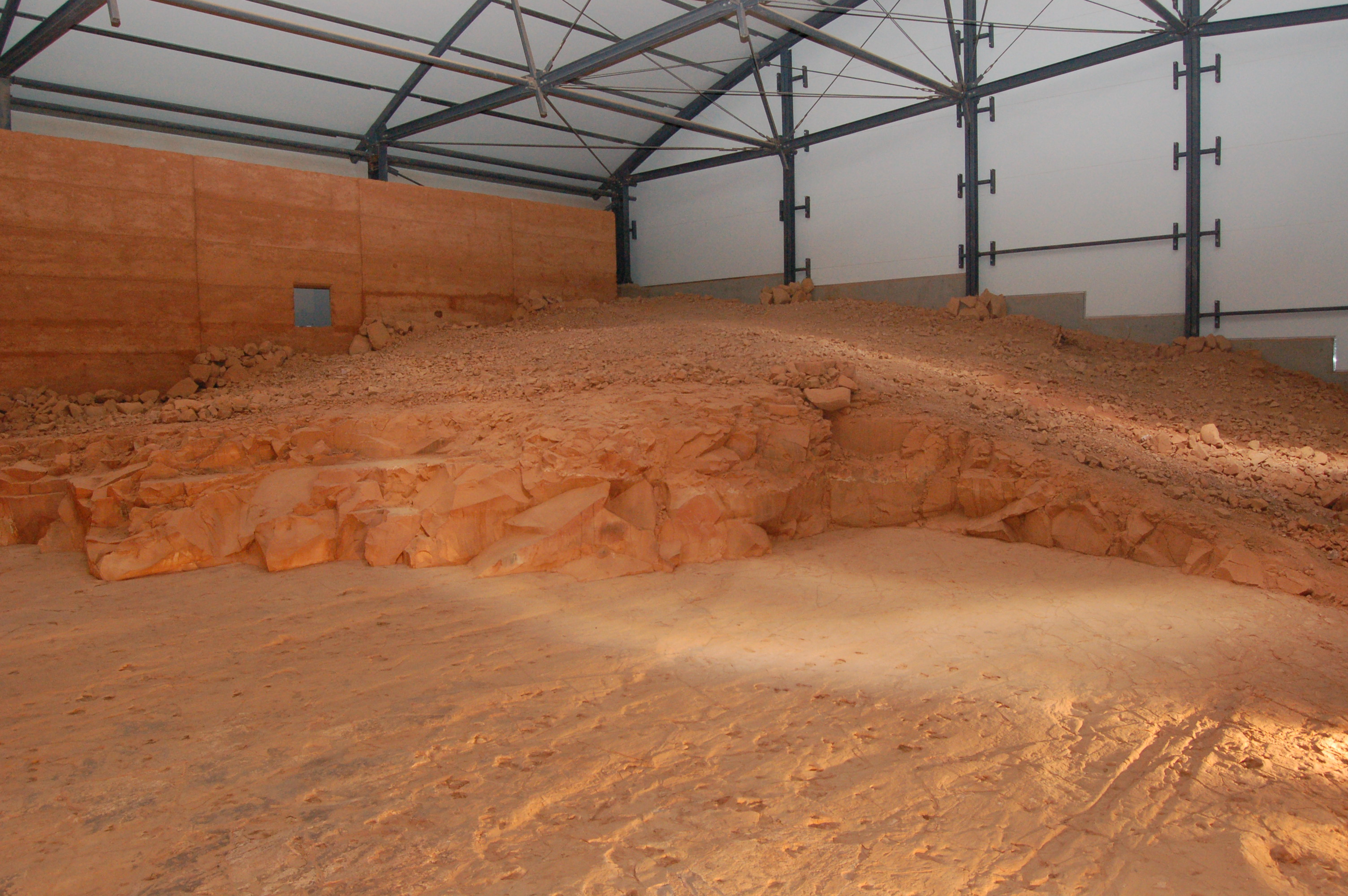 Wide angle photo from the visitor’s walkway inside Lark Quarry Dinosaur Trackways, Australia. Here, the camera is pointing towards the south west corner of the building. On the top (in the far corner) is the natural landscape. In the middle ground of the photo, some of the overburden has been cleared. In the foreground is the dinosaur tracks.